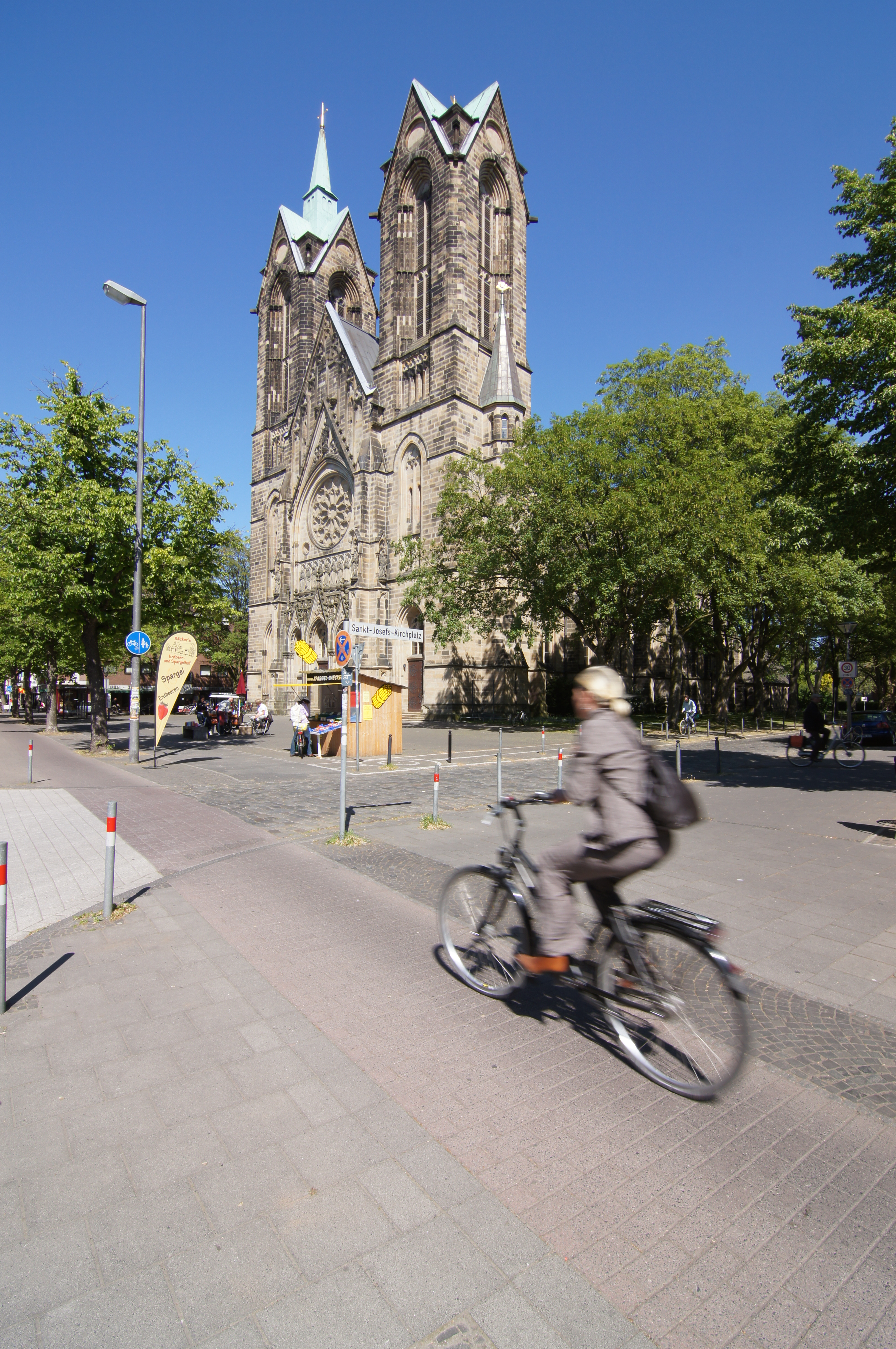 The west side of the church Sankt Joseph in Münster, Westphalia. In front the church square. Asparagus and coffee is sold there.